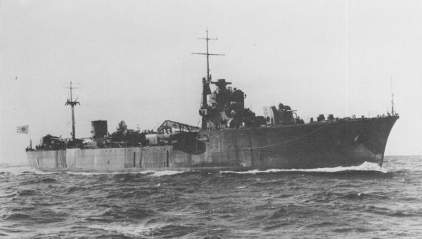 Japanese Oiler "Ashizuri"(Ashizuri-class) in trial run off Nagasaki Port.